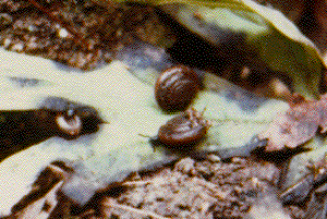 Iowa Pleistocene Snail (Discus macclintocki)